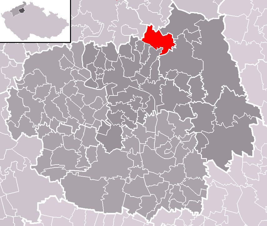 Location of Třebušín municipality within Litoměřice District and administrative area of Litoměřice as a Municipality with Extended Competence.